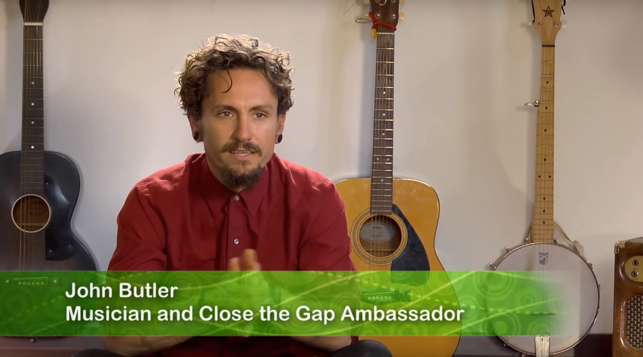 Video still of John Butler talking to camera about Oxfam Australia's National Close the Gap Day in September 2013